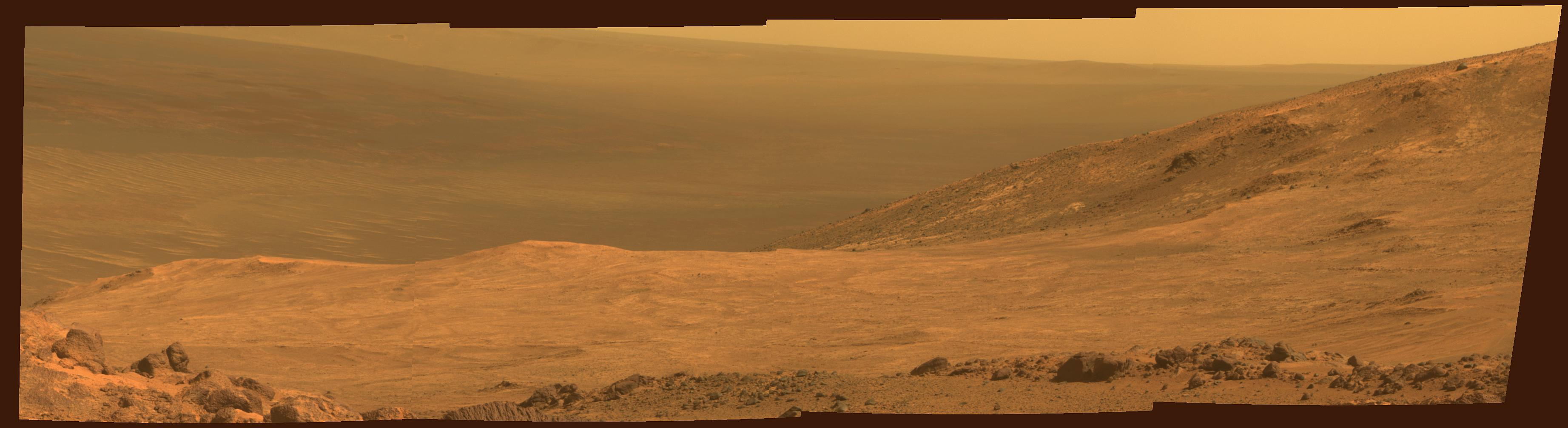 PIA19151: Mars 'Marathon Valley' Overlook This view from NASA's Mars Exploration Rover Opportunity shows part of "Marathon Valley," a destination on the western rim of Endeavour Crater, as seen from an overlook north of the valley. The scene spans from east, at left, to southeast. It combines four pointings of the rover's panoramic camera (Pancam) on March 13, 2015, during the 3,958th Martian day, or sol, of Opportunity's work on Mars. The rover team selected Marathon Valley as a science destination because observations of this location using the Compact Reconnaissance Imaging Spectrometer for Mars (CRISM) instrument on NASA's Mars Reconnaissance Orbiter yielded evidence of clay minerals, a clue to ancient wet environments. By the time Opportunity explores Marathon Valley, the rover will have exceeded a total driving distance equivalent to an Olympic marathon. Opportunity has been exploring the Meridiani Planum region of Mars since January 2004. This version of the image is presented in approximate true color by combining exposures taken through three of the Pancam's color filters at each of the four camera pointings, using filters centered on wavelengths of 753 nanometers (near-infrared), 535 nanometers (green) and 432 nanometers (violet).